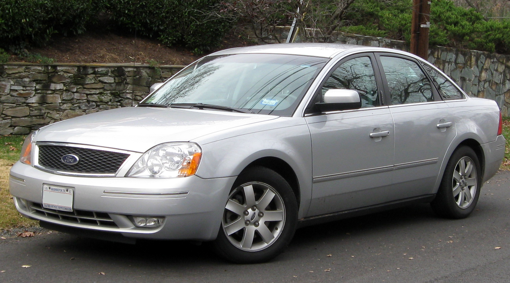 2005-2007 Ford Five Hundred photographed in Washington, D.C., USA.